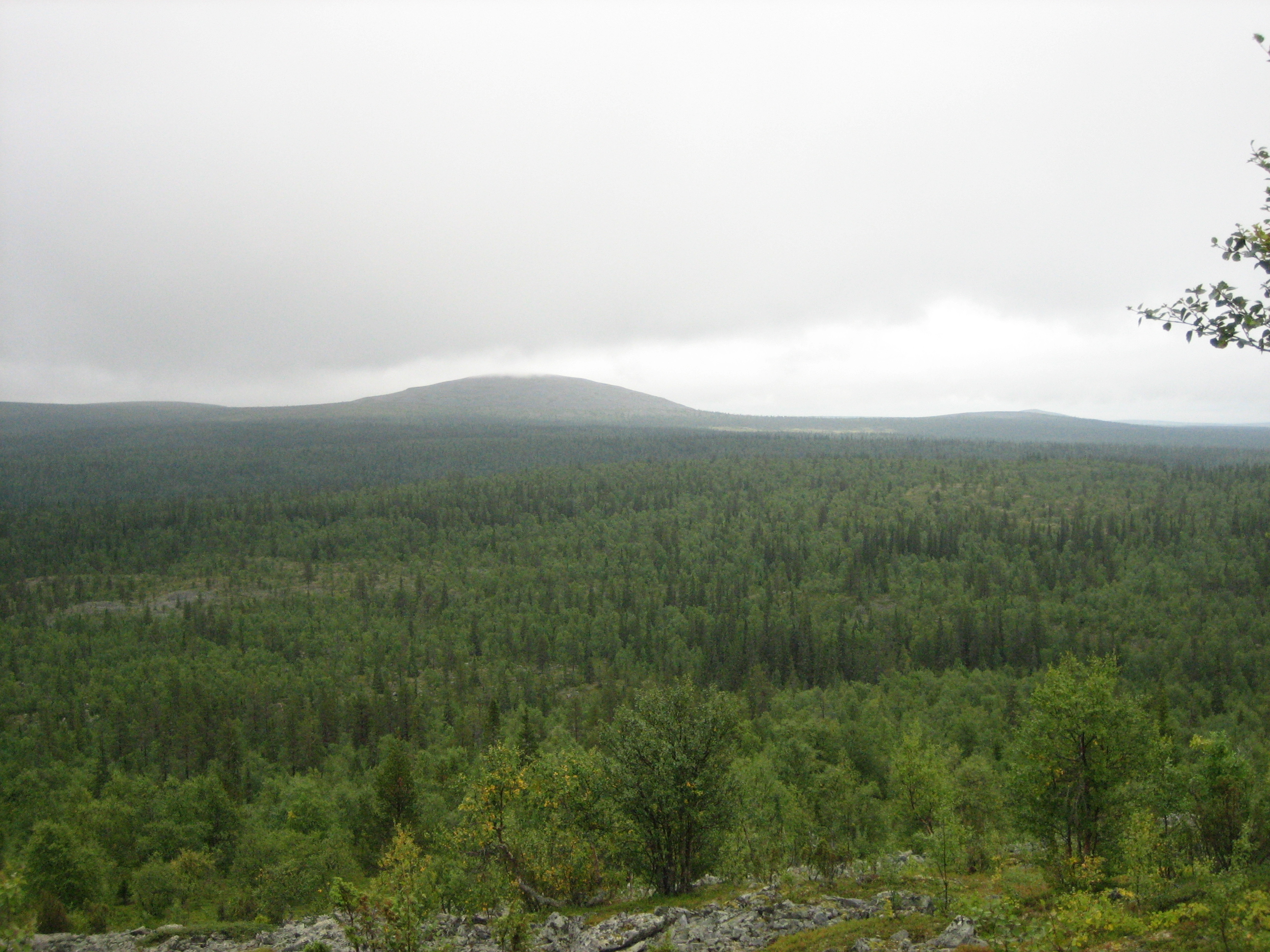 View from Värriö II fjell towards Sauoiva in Värriö natural park, Salla, Finland.